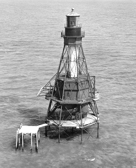 American Shoal Light. Image copied from [1]. From U. S. Coast Guard archives - no photo number/caption/date; photographer unknown. May have been taken before Coast Guard took over lighthouses.